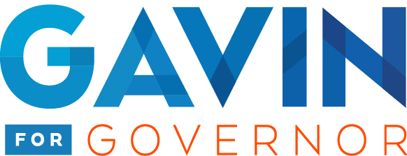 Gavin Newsom logo